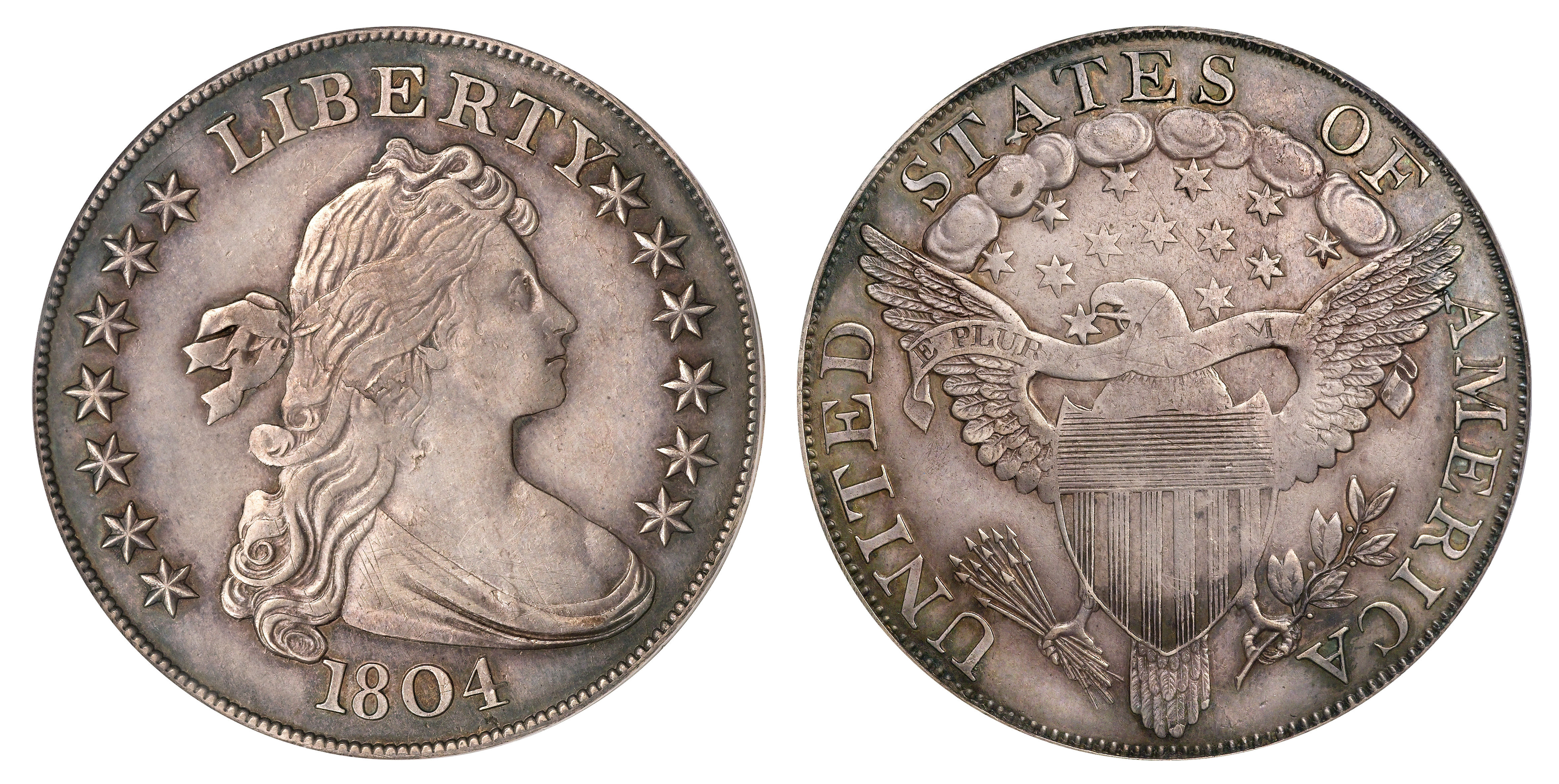 There are 15 specimens of the 1804 dollar known to exist (seven of which are in museum collections). Despite the date on the coin, none of them were struck before the 1830s. The Class III example pictured (based on the lettering used on the coin) is one of only six known, and may have been struck as late as the 1850s. It sold in a 2009 auction for USD $2,300,000.